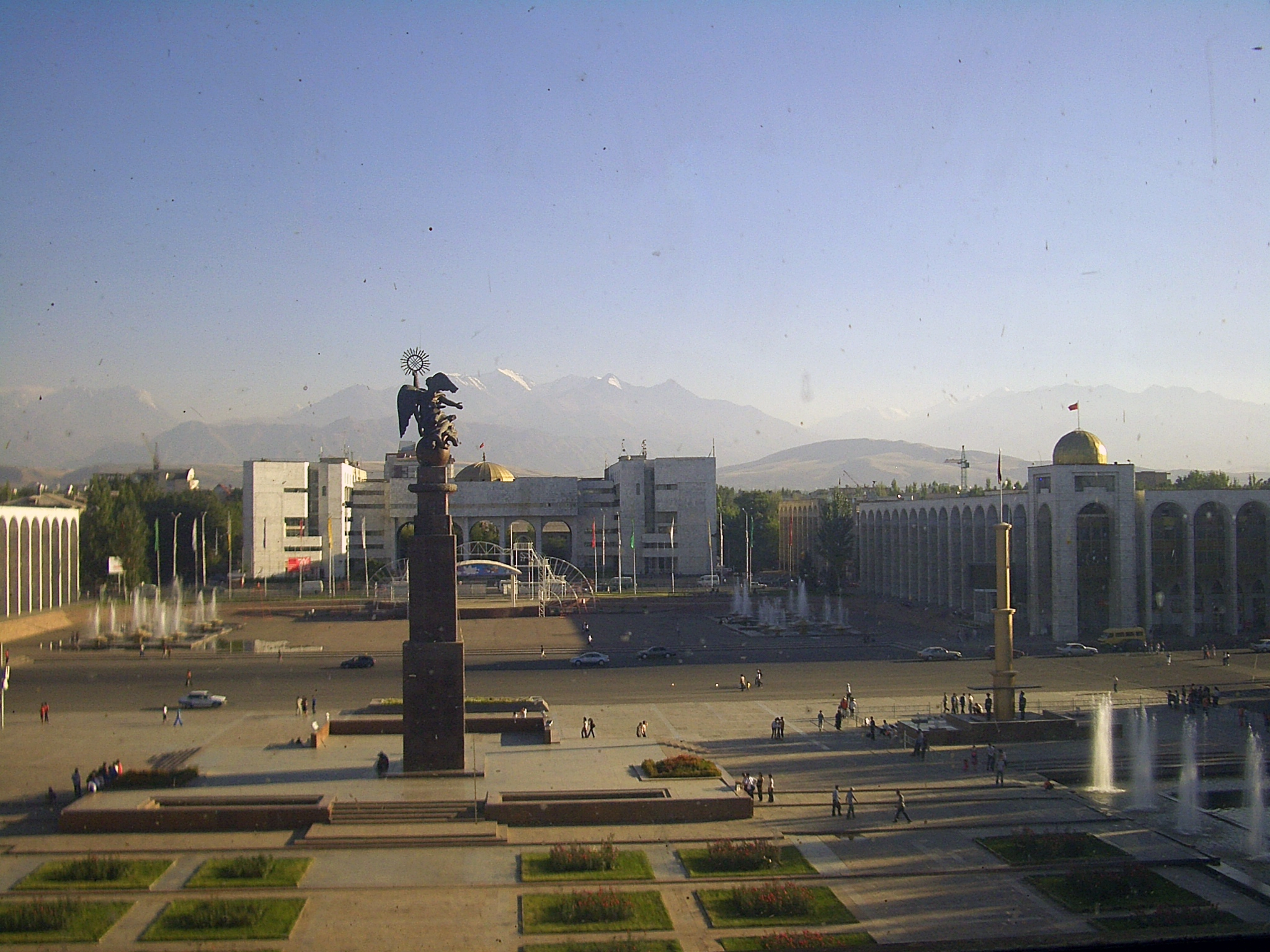 Bishkek's central Ala-too Square, with the Erkindik Monument (Freedom Monument). Photographed from a window in the National Museum.